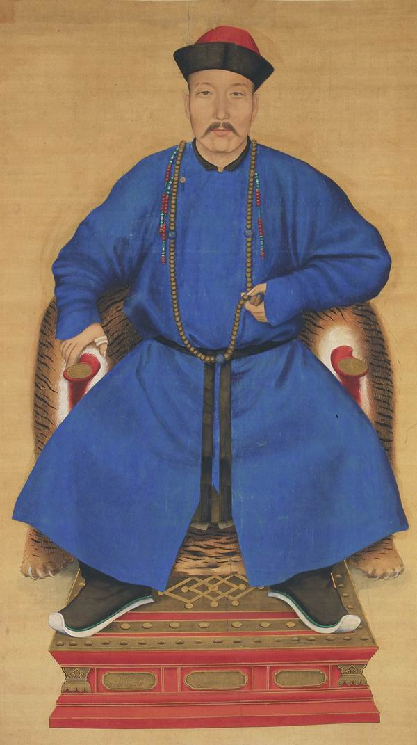 Portrait of Tsereng (d. 1750) Ink and colors on silk, H: 144.0 W: 83.0 cm.